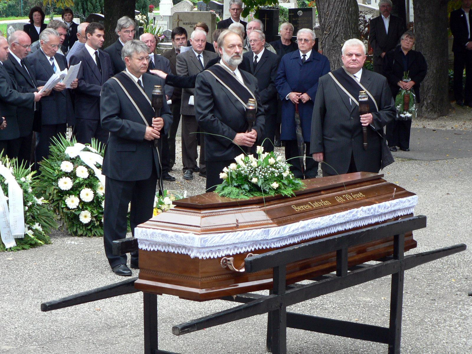 Seres István temetése 20070926